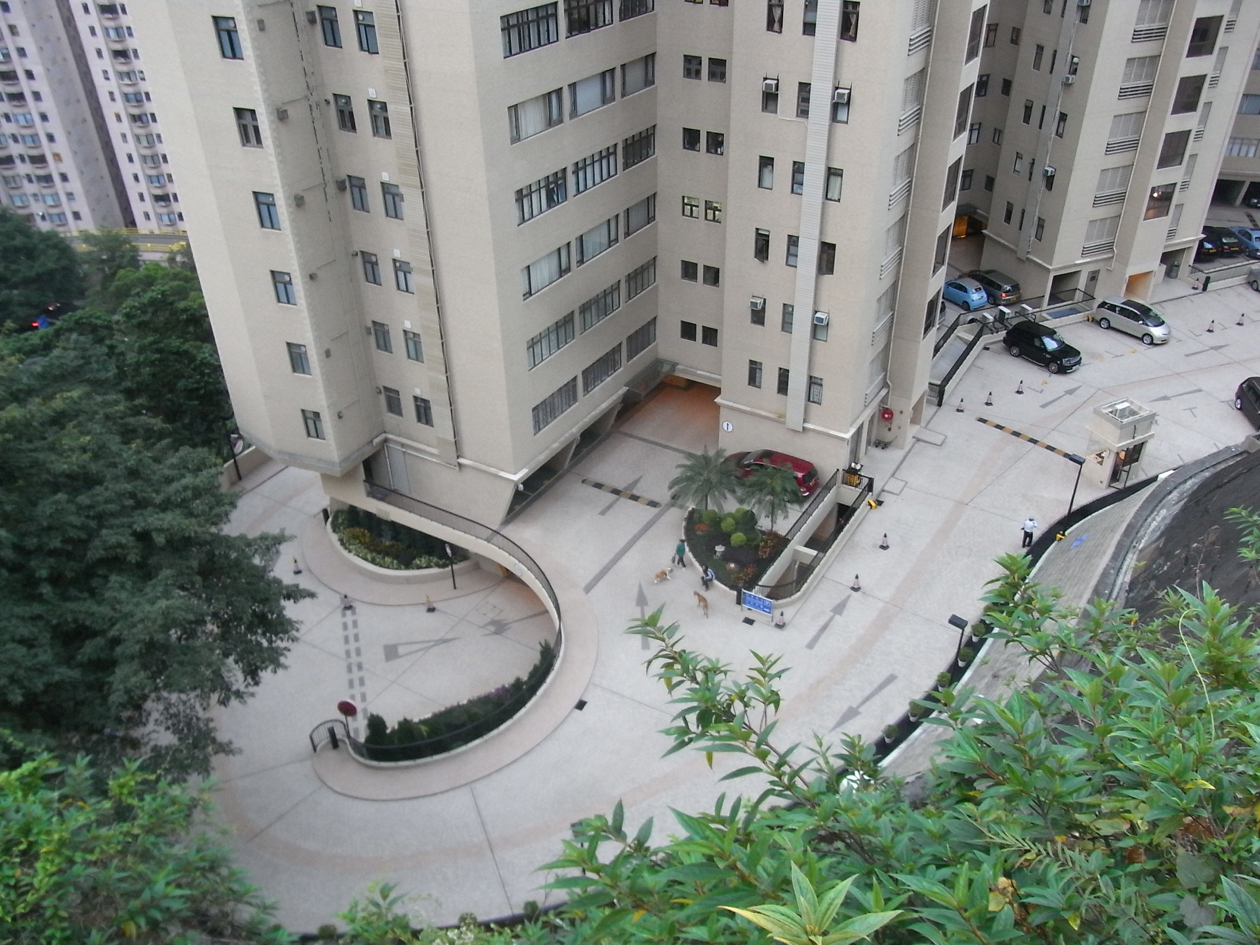 香港島太平山半山區住宅